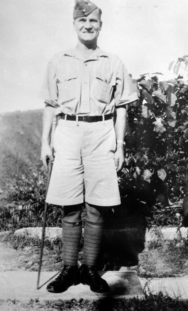 Company Sergeant-Major J.R. Osborn of "A" Company, The Winnipeg Grenadiers, Jamaica, ca. 1940-1941. Killed in action at Hong Kong on 19 December 1941, CSM Osborn was posthumously awarded the Victoria Cross